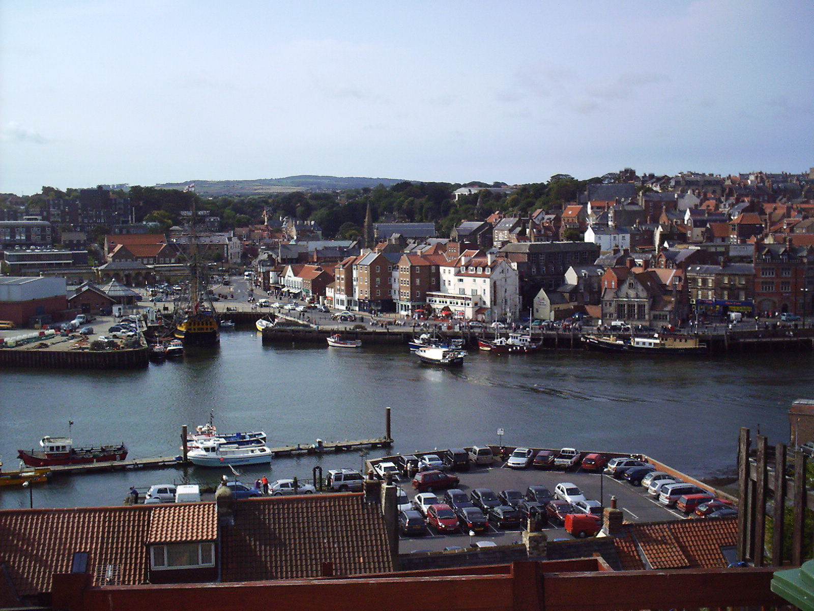 A view of Whitby from its East Cliff